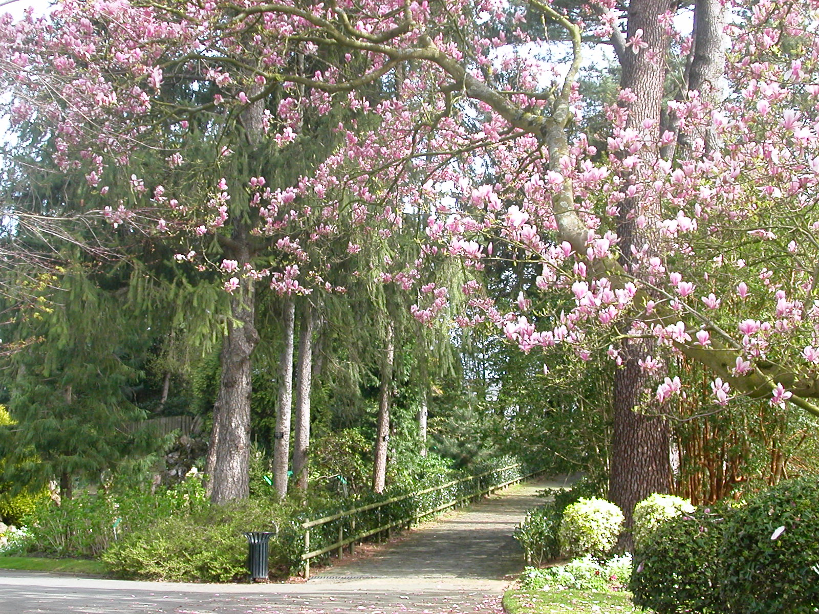 The "mountain" of the Jardin des plantes in Nantes